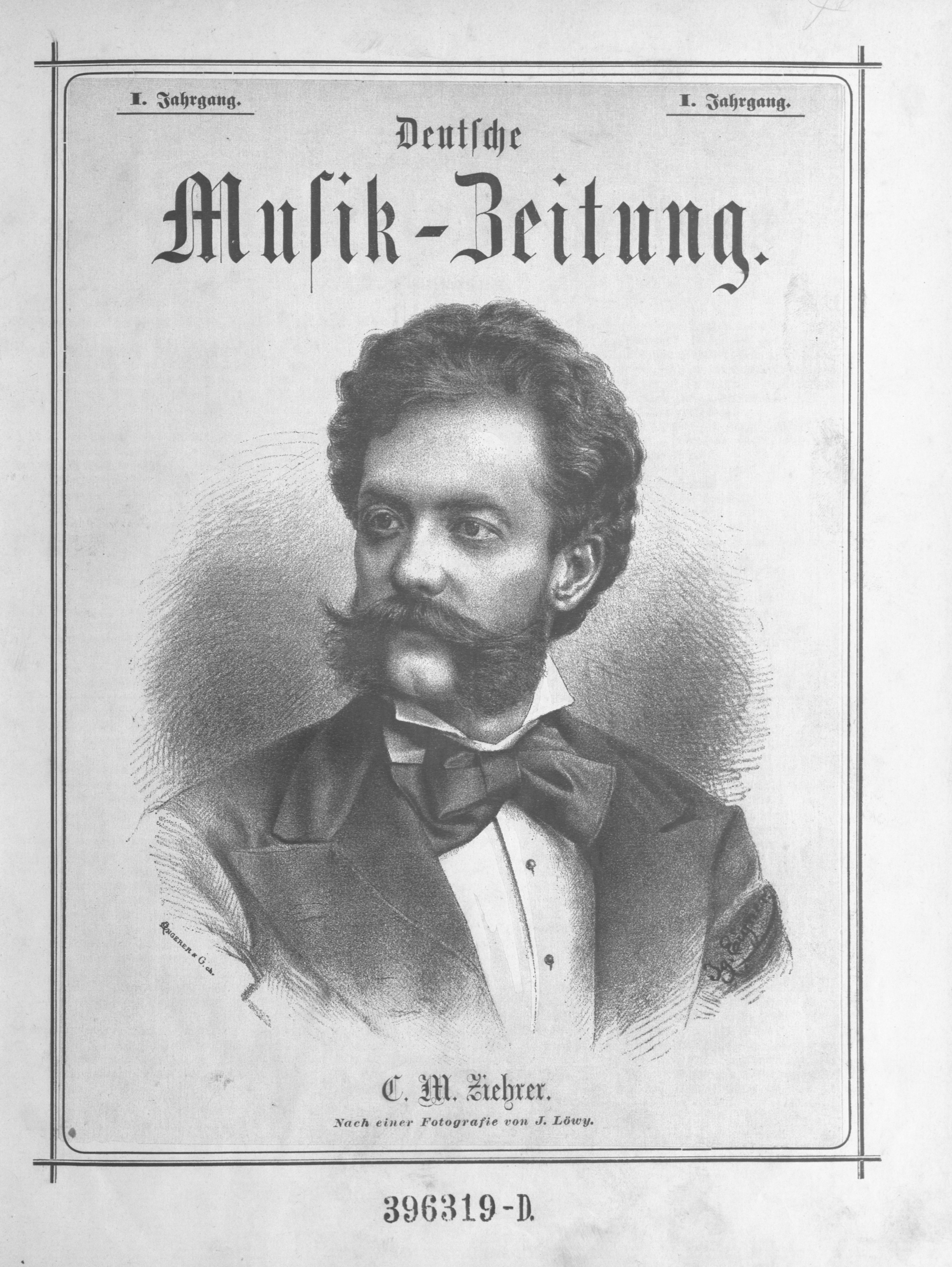 Carl Michael Ziehrer (1843–1922), Austrian composer and conductor